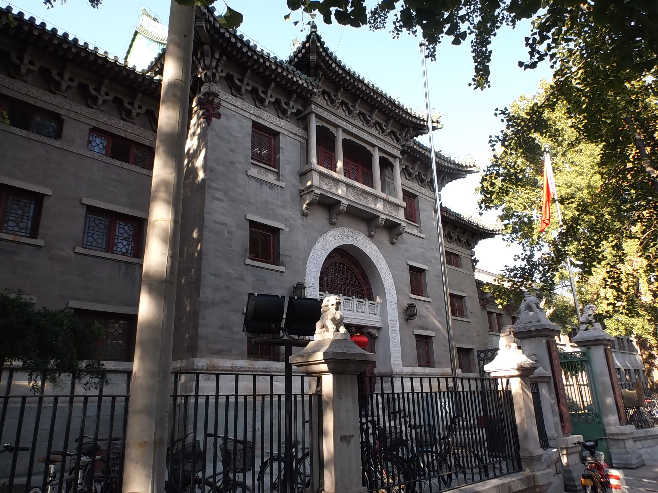 Former Fu Jen University at Dingfu Jie (Dingfu Street) - Beijing, 4.9.2014